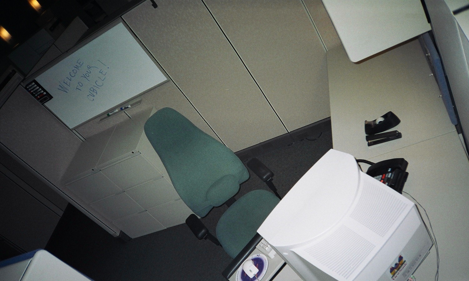 clean cubicle seen from North I have taken this picture with my camera and I am placing it in the public domain --AlainV 02:11, 12 Jan 2005 (UTC) This cubicle measures 8 feet by 10 feet